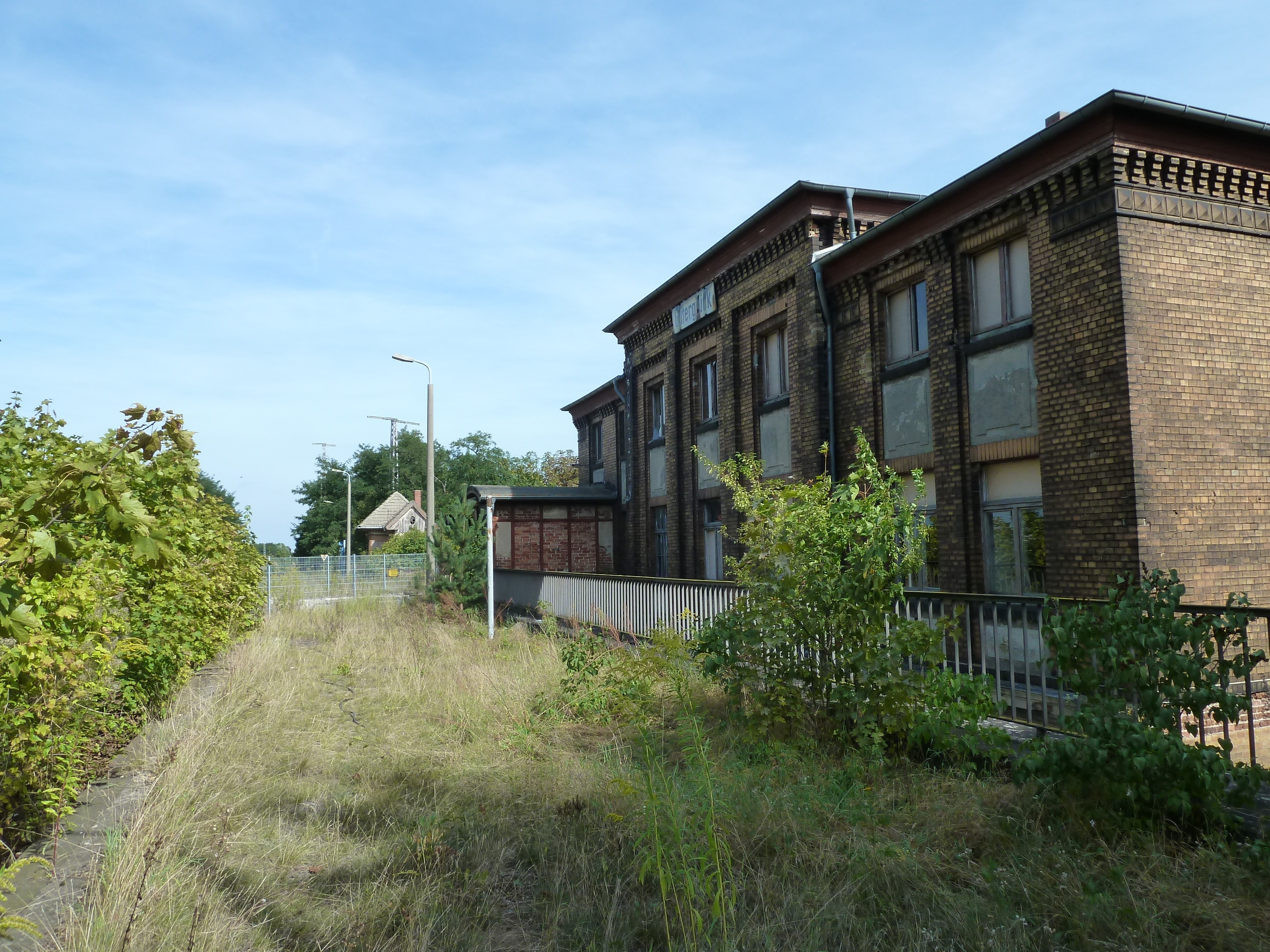 Güterglück train station, unused station building, seen from abandoned platform on the upper station level